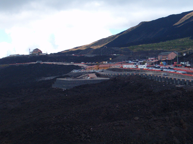 Mount Etna:Rifugio Sapienza